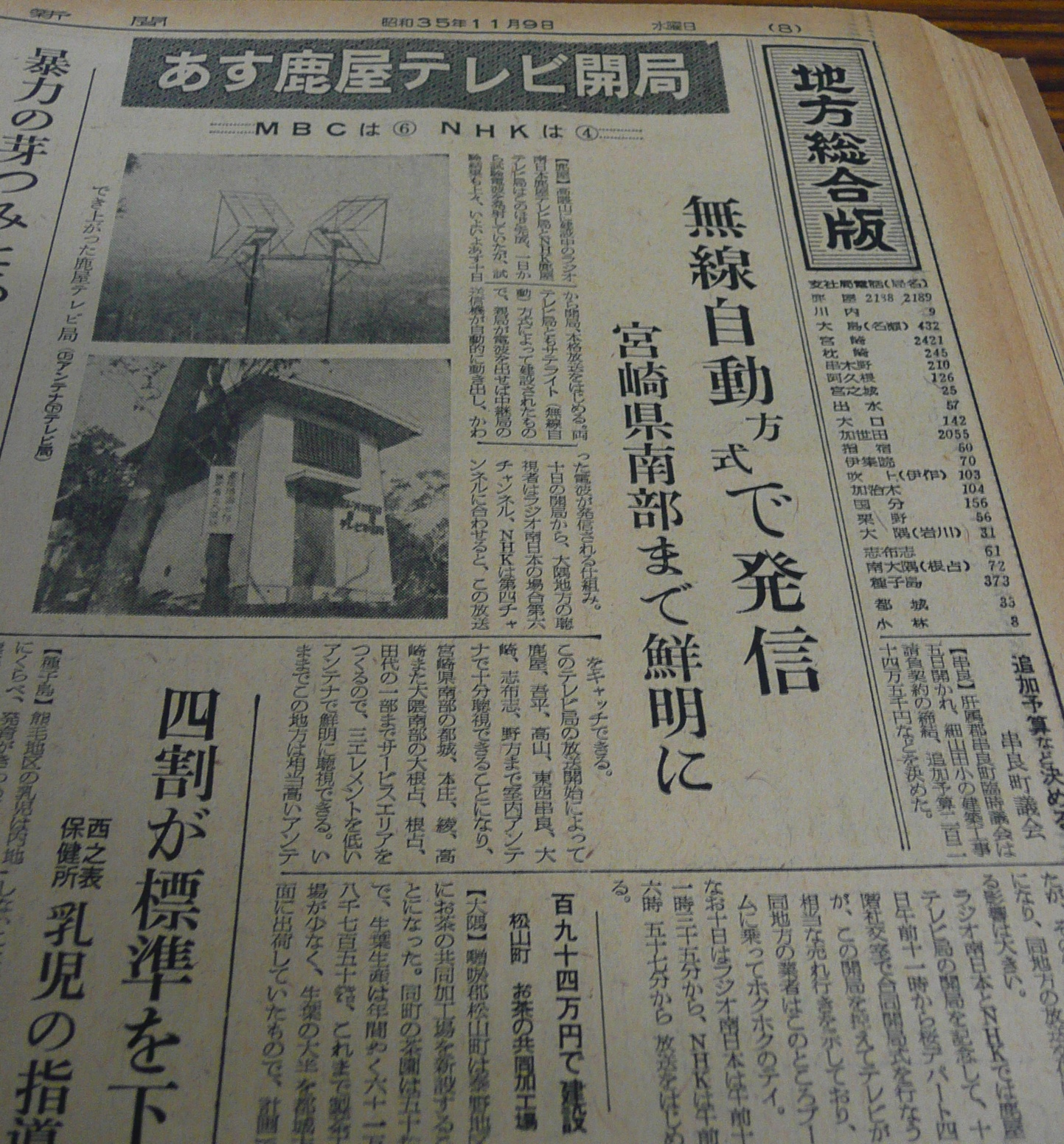 Kanoya Analog TV Repeater (Minami-nippon Shimbun - November 9, 1960)